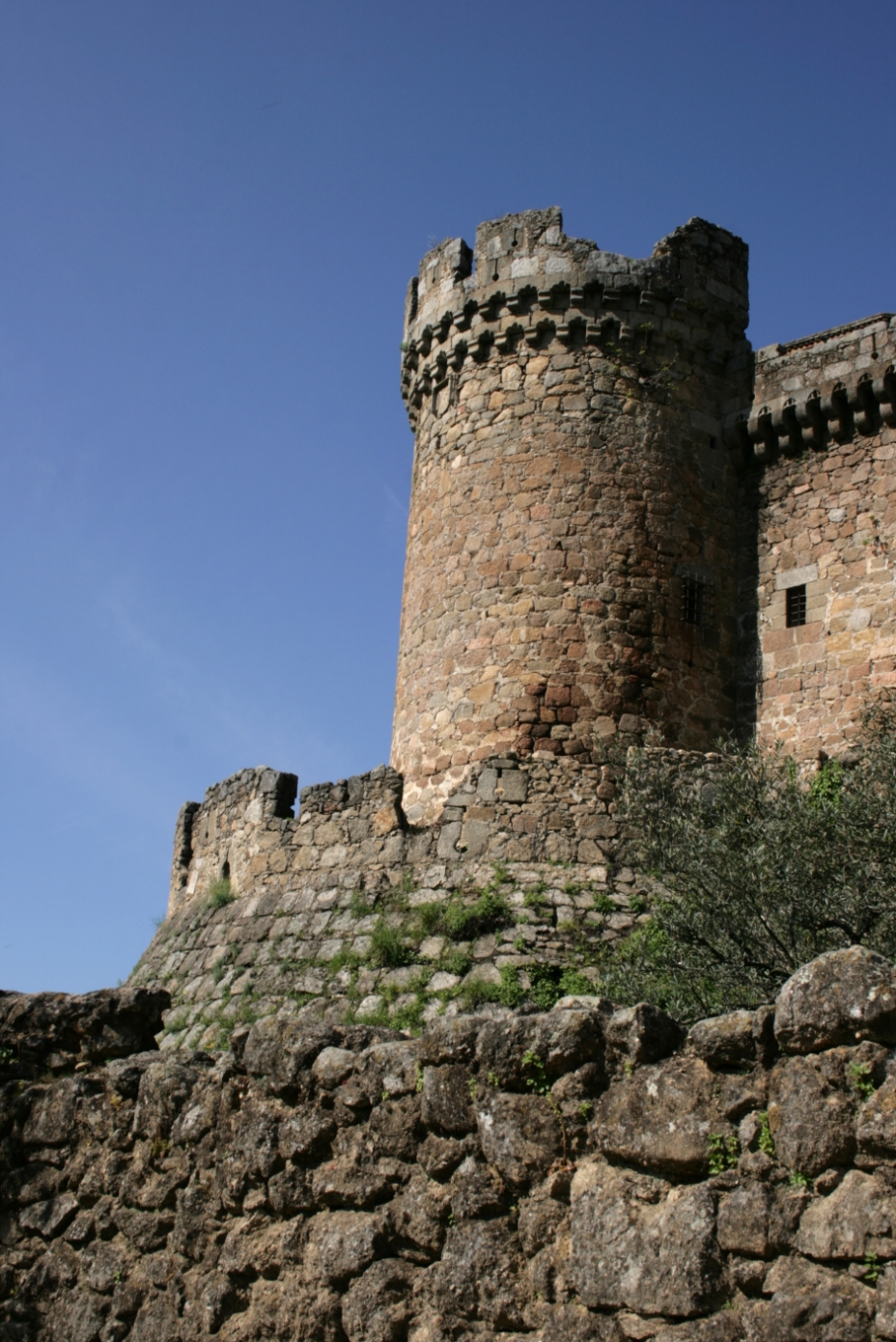 The Middle Age fortress of Mombeltrán in the province of Ávila, under the autonomous region Castilla y Léon, Spain.